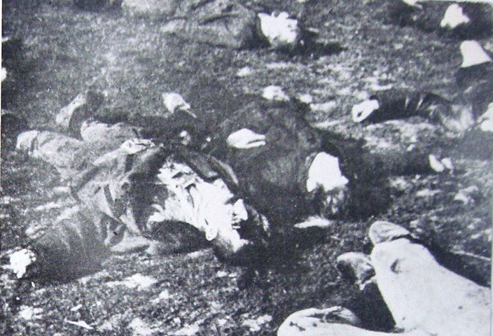 Massacre of youths in Vatasa, Tikvesh. This bloody event occurred on June 16, 1943, when were shot 12 young persons. This media file is produced by Wikipedian in Residence in Category:Wikipedian in Residence at DARM in 2016.